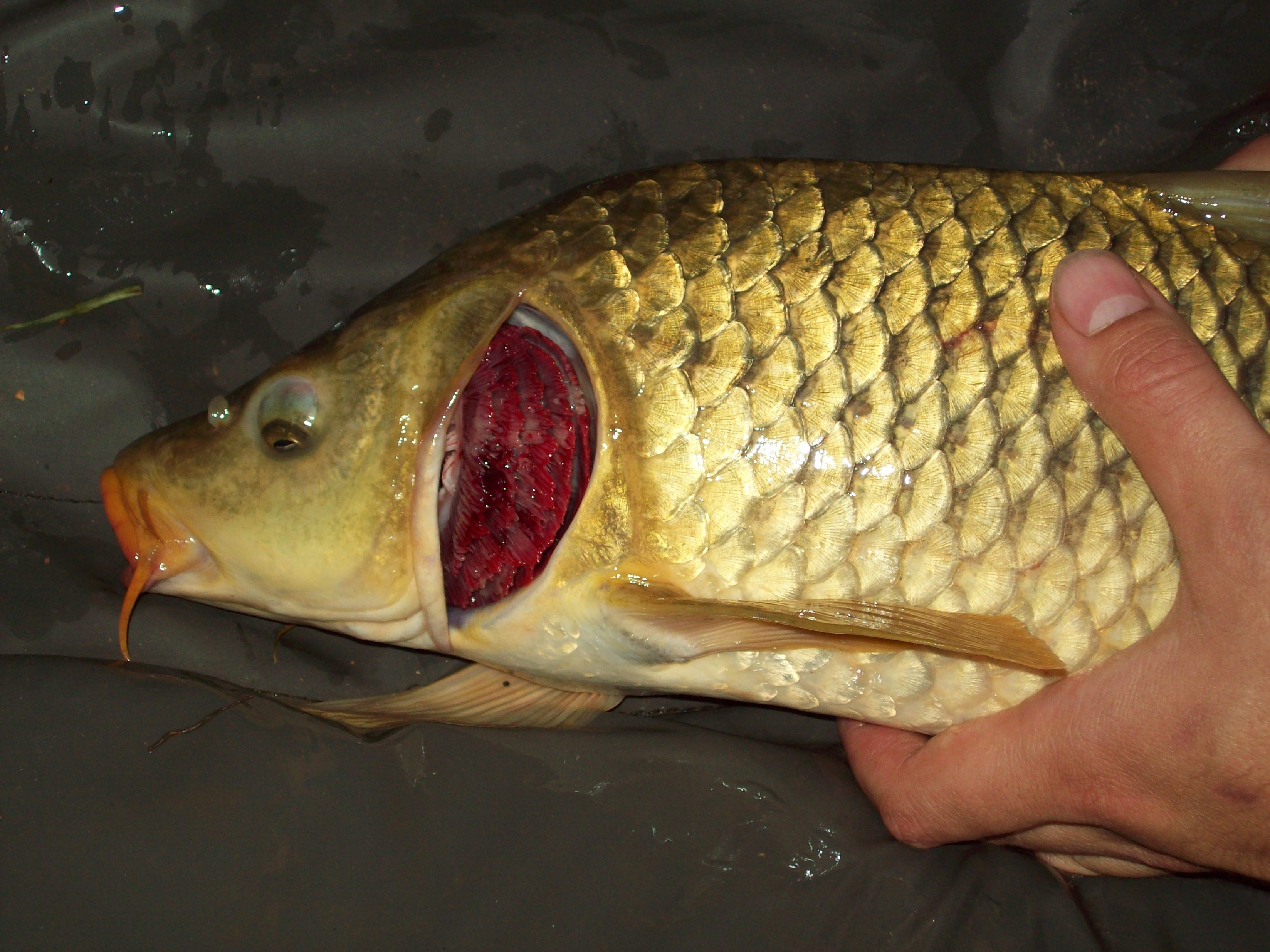 Common Carp with gill flap birth defect, a good visual example of gills. Caught in Oklahoma, USA on May 29th, 2009.